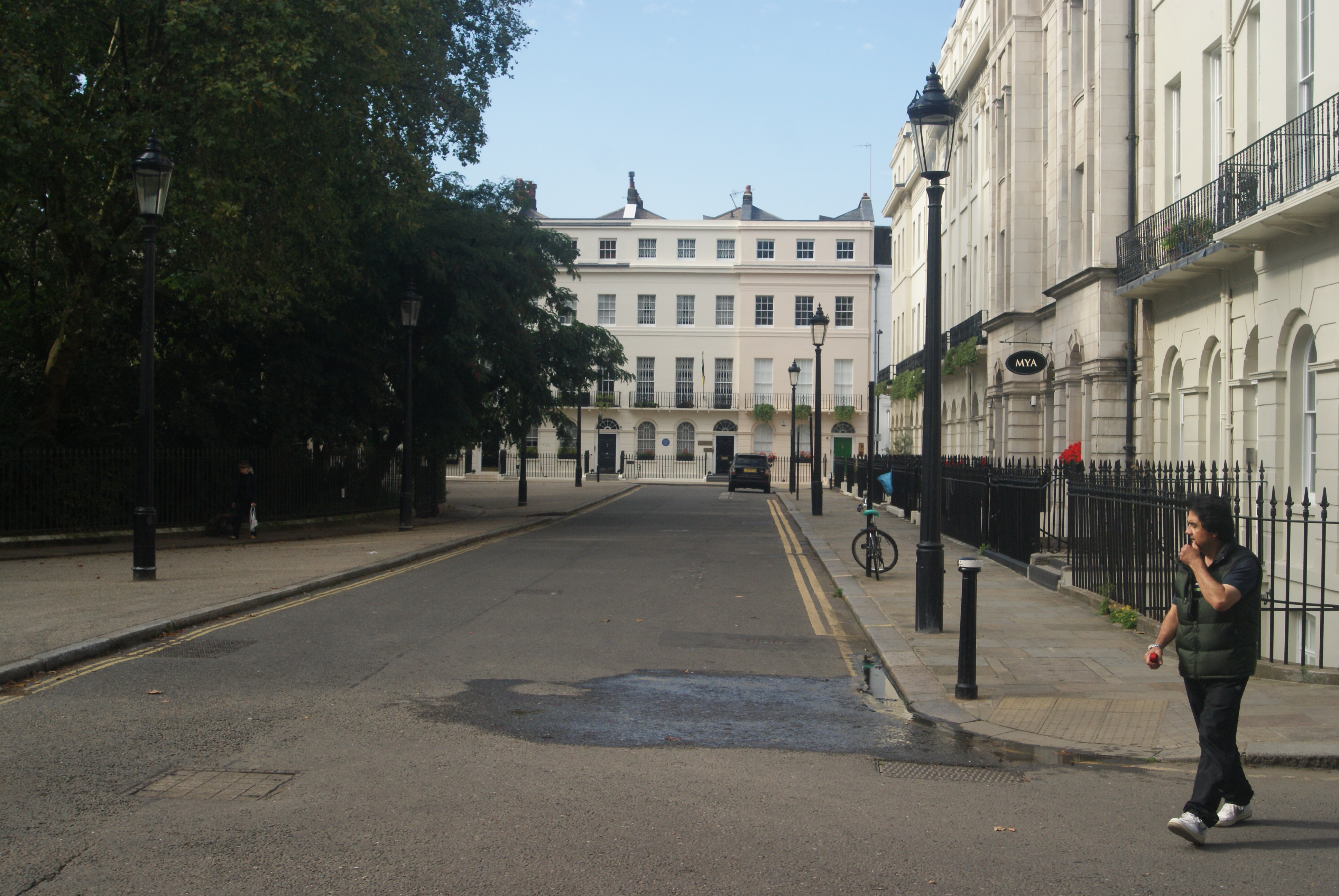 View along Fitzroy Square from Fitzroy Street